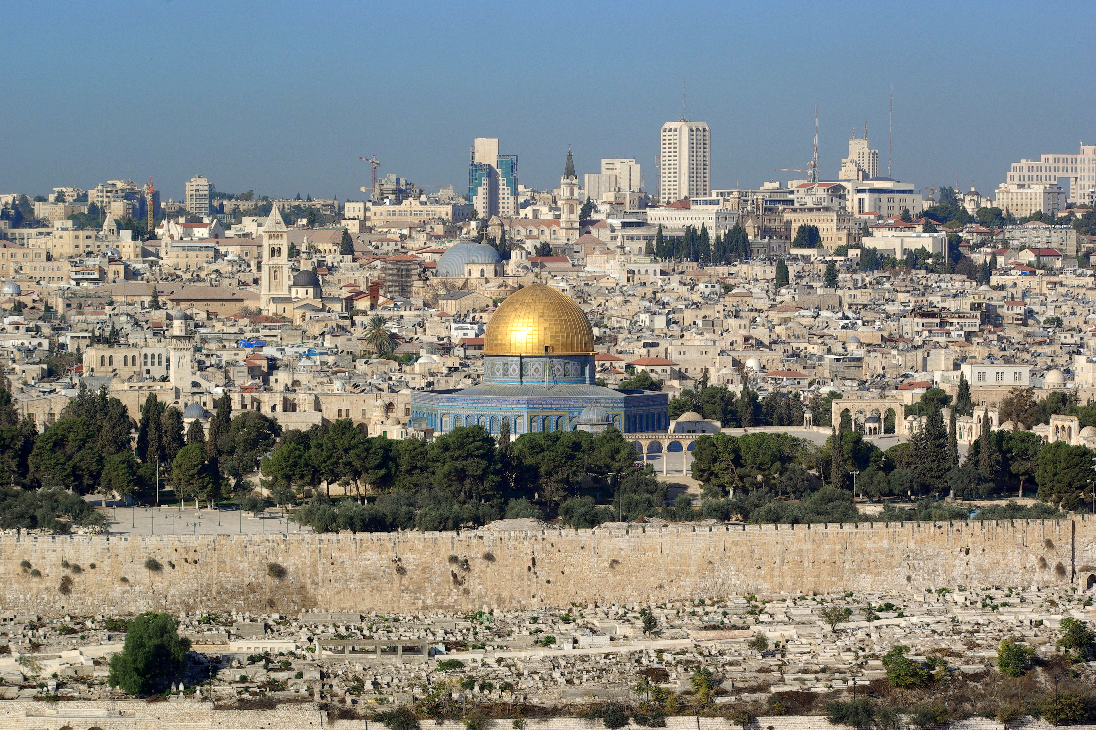 Jerusalem, Dome of the Rock, Church of the Holy Sepulcher in the background.